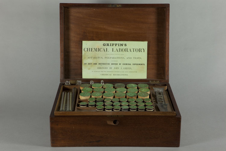 Photograph of Griffin’s Chemical Laboratory, Glasgow, c. 1850.